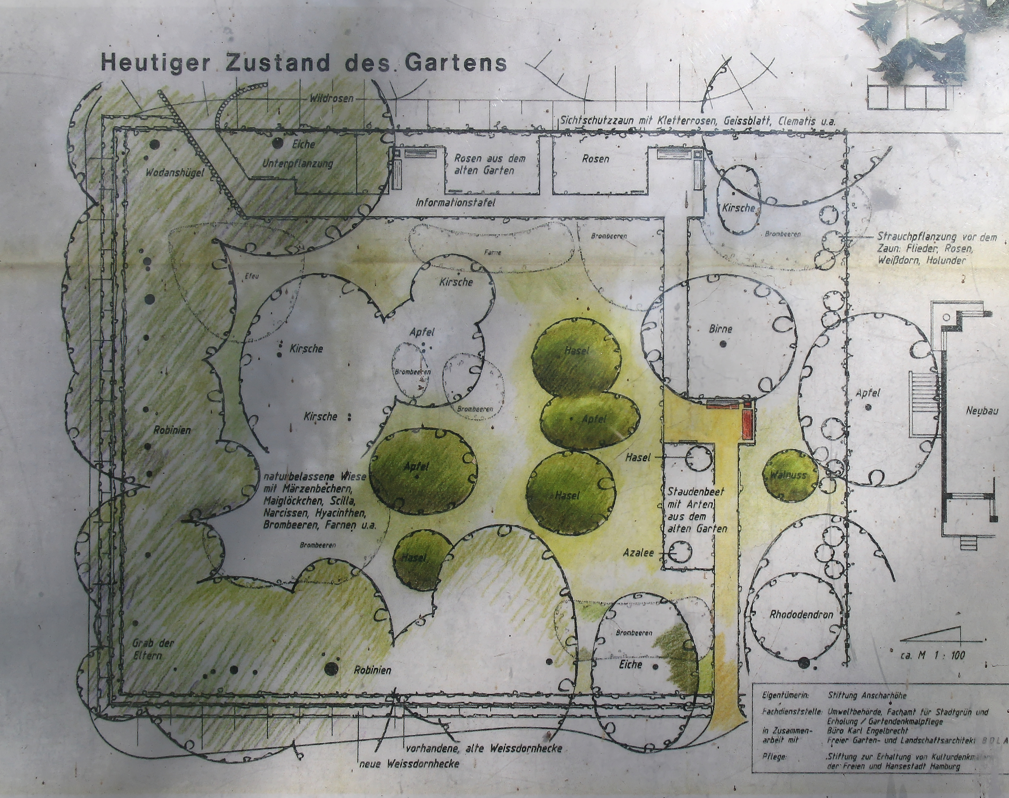 Hamburg-Eppendorf, Garden de i'Aigle, public information